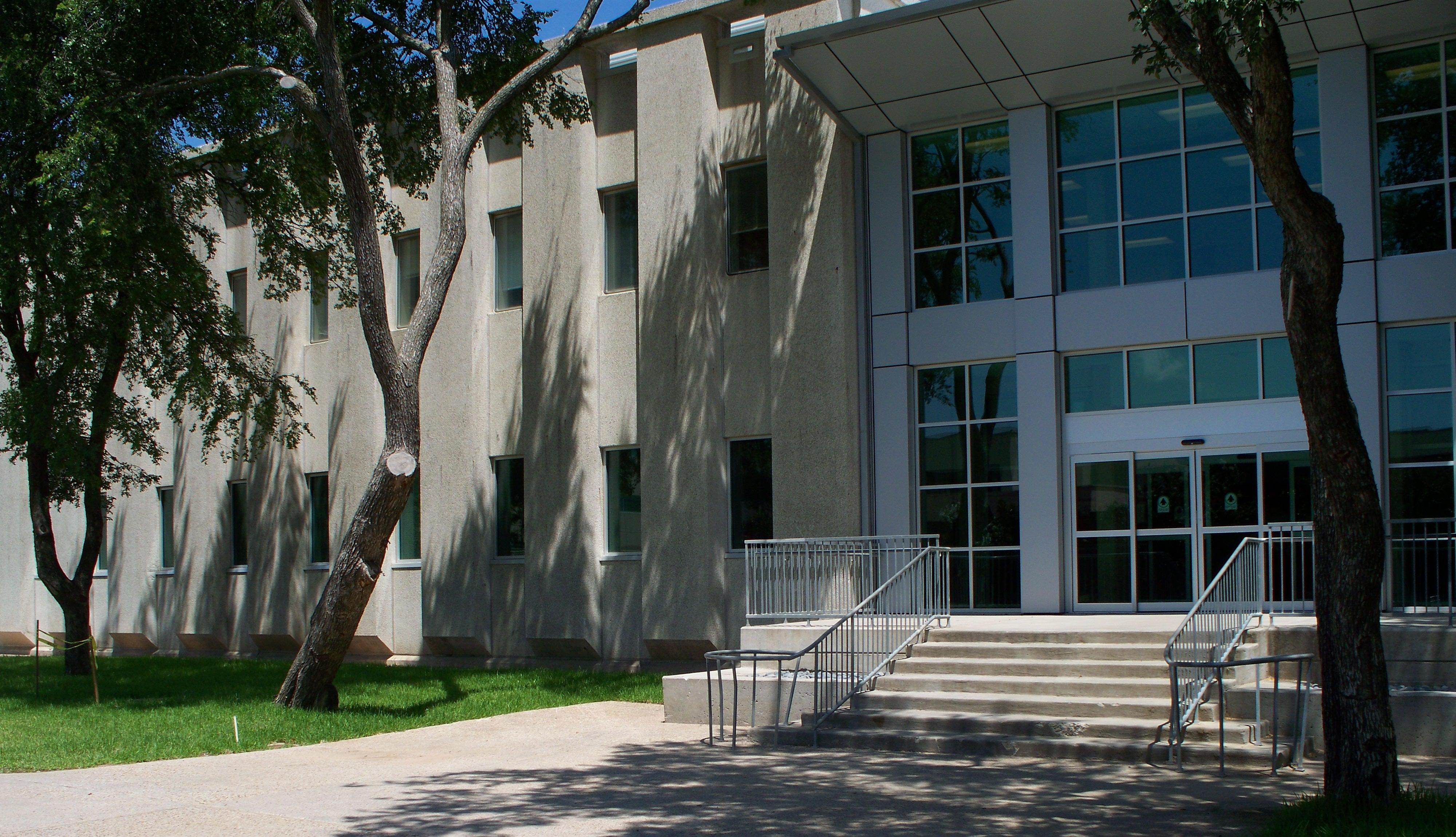 UT Dallas Founders Building